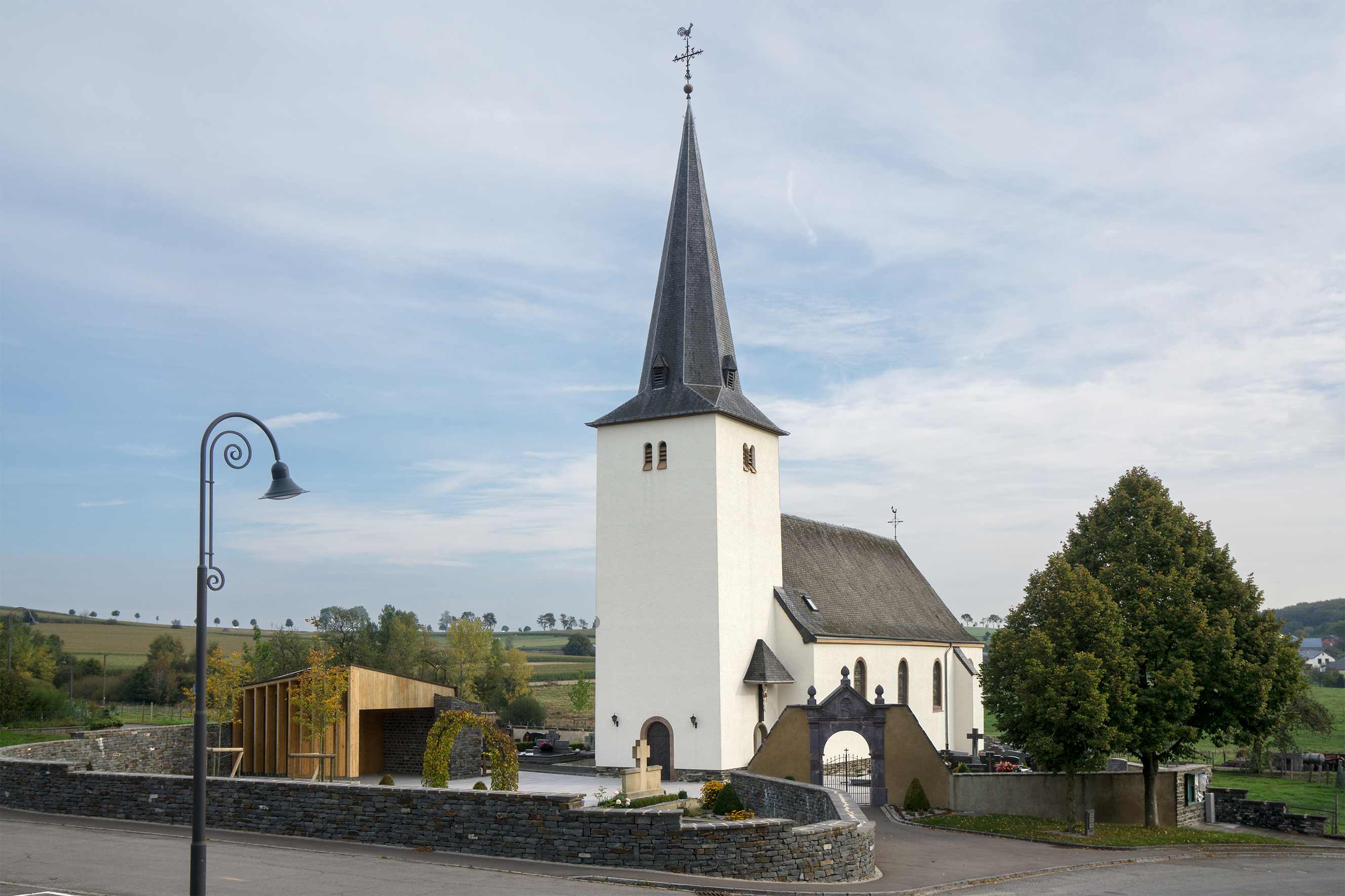 Church of Doennange